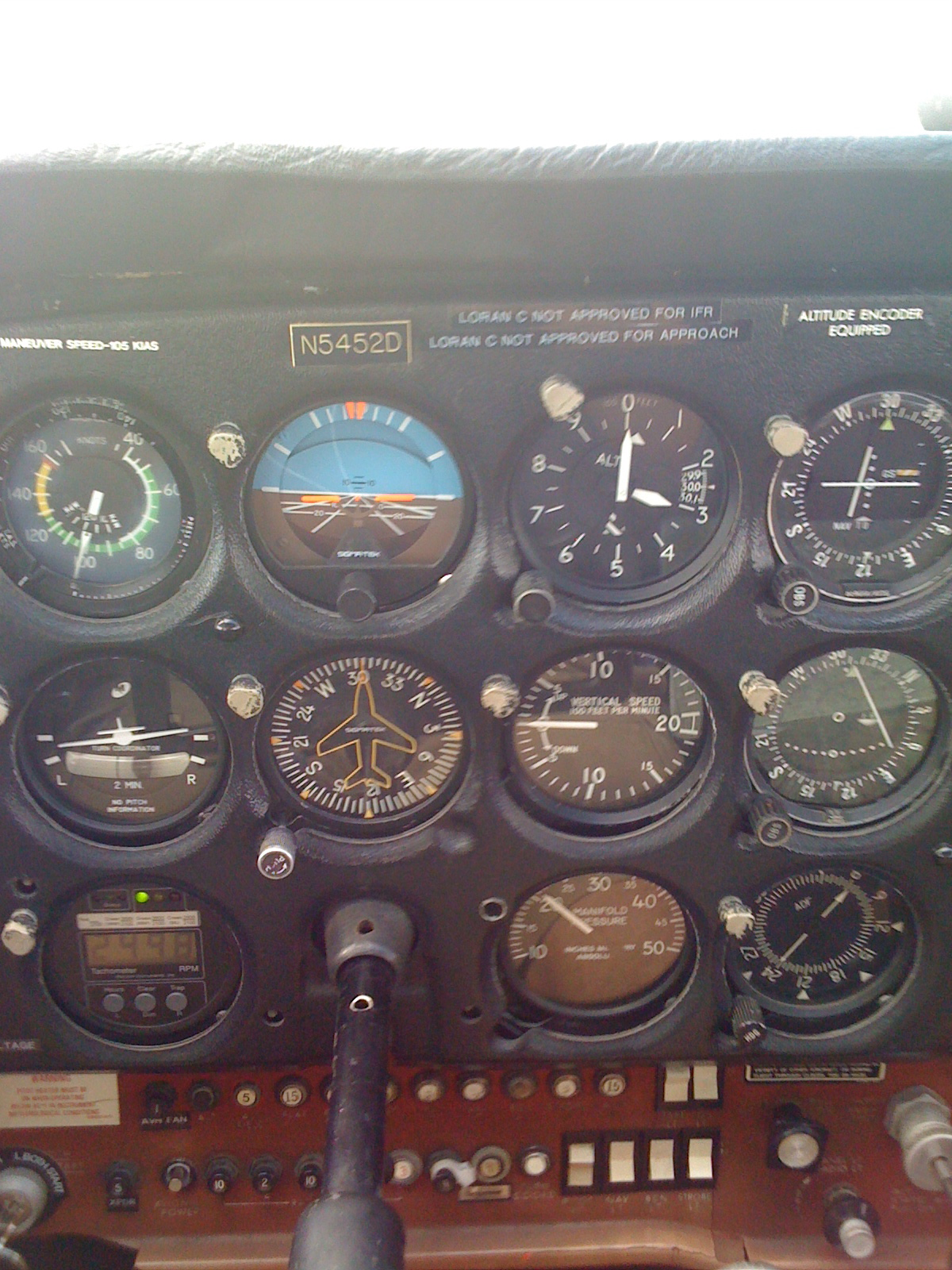 typical instrument configuration of a cessna 172